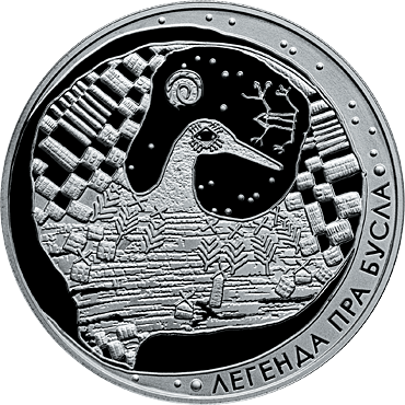 History and Culture of Belarus. Commemorative Coins "Legend rule Buslov"("Legend of the Stork ")